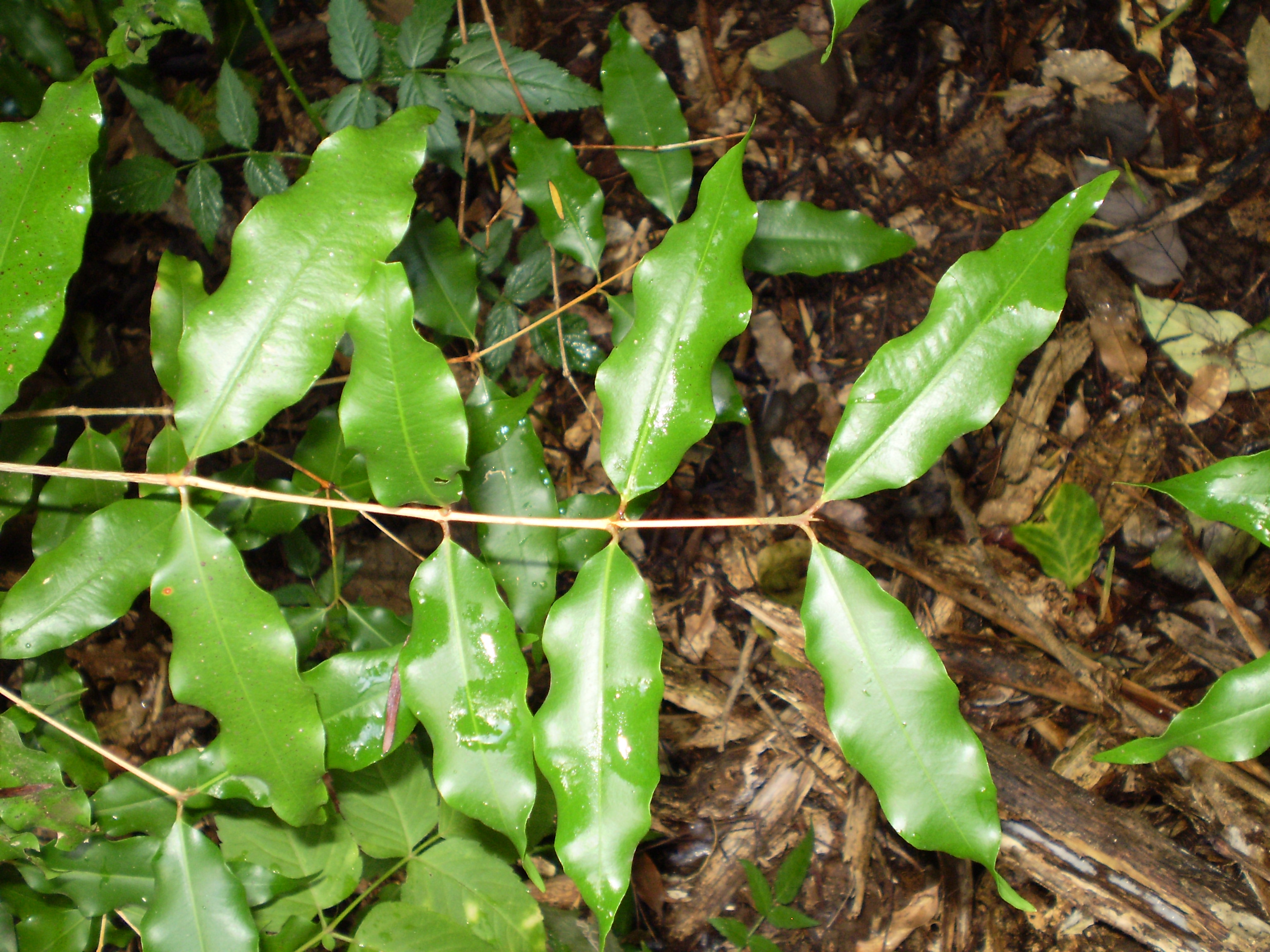 Leaf of aniseed myrtle, Syzygium anisatum (syn Backhousia anisata). Cultivated tree, Northern NSW, Australia.